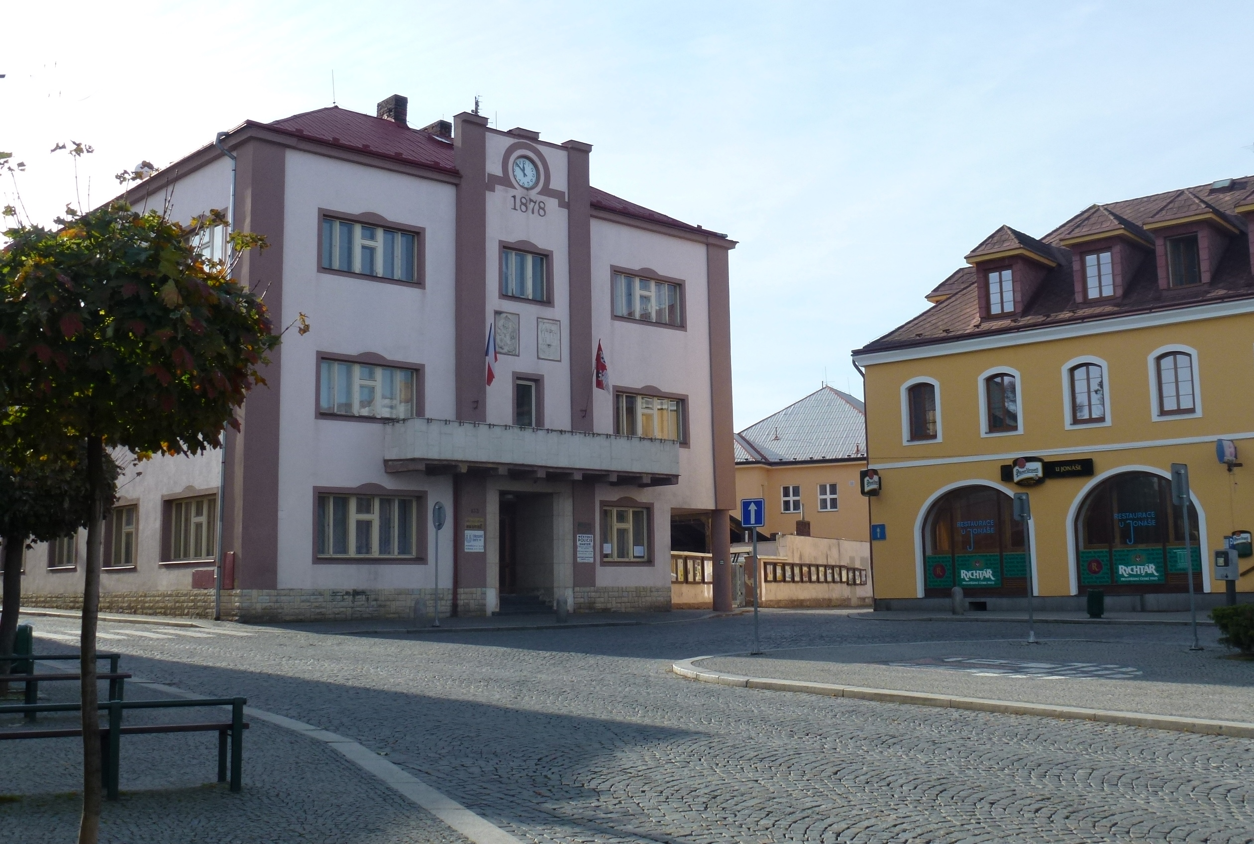 Municipal Authority in Skuteč, Palacky Square. Photo location - Czechia, Pardubice Region, Skuteč town.